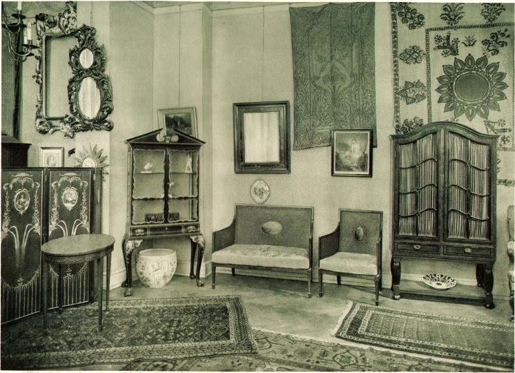 Exhibition at Malmedé & Geissendörfer, Cologne. Photo. From Malmedé & Geissendörfer ([ca. 1905]) Malmedé & Geissendörfer: Aufnahmen aus den Ausstellungsräumen der Firma Malmedé & Geissendörfer. Köln a. Rh. Unter Sachsenhausen 33. Kunstgewerbehaus, Möbel und Dekoration, s.l.: s.n. Aachen, Antiquariat Michael Schenck (2010).